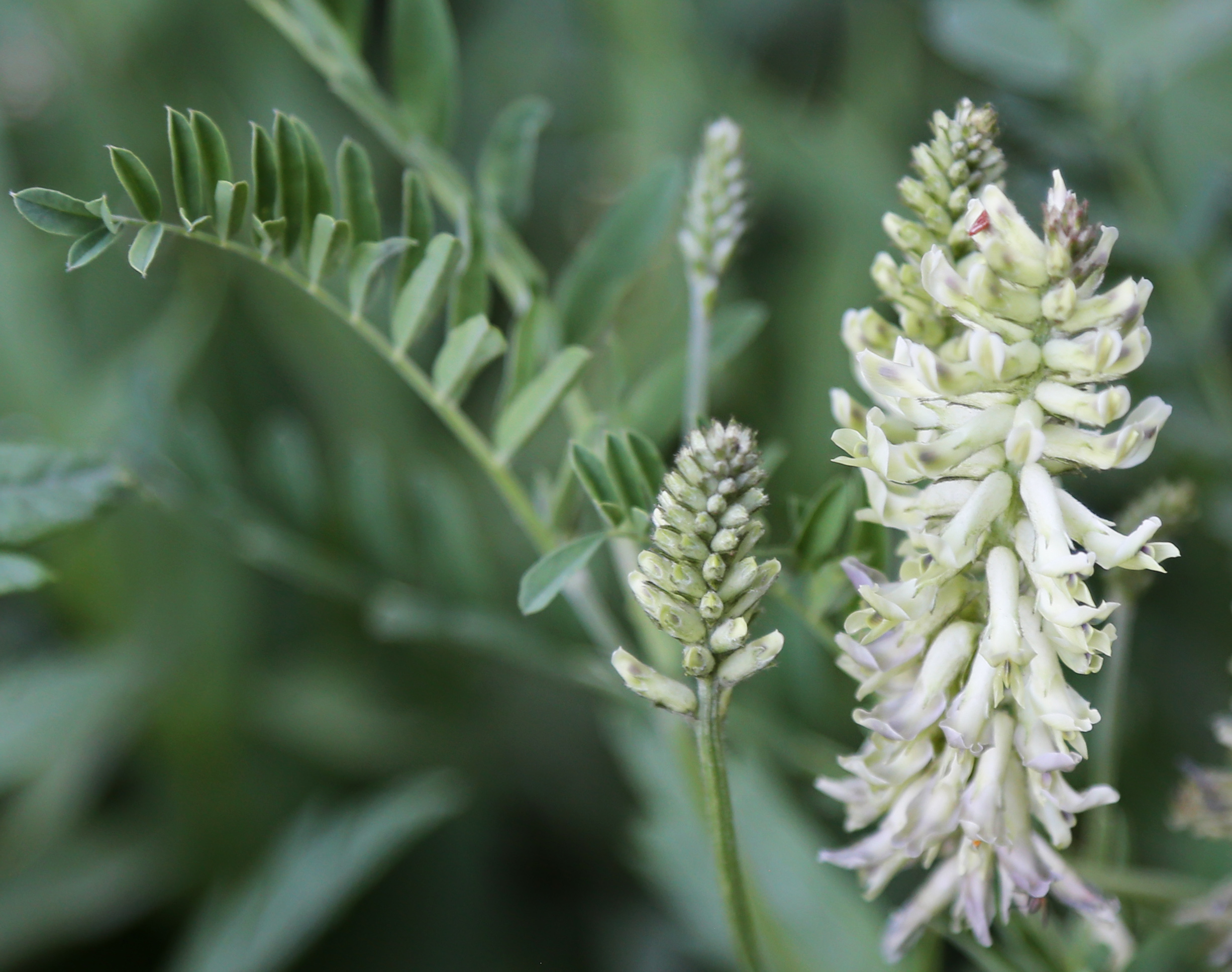 Wild licorice (Glycyrrhiza lepidota), flower stalk and leaf stem. At 8,400 ft (2,600 m) along McGee Creek Trail at edge of John Muir Wilderness, Sierra Nevada, California.